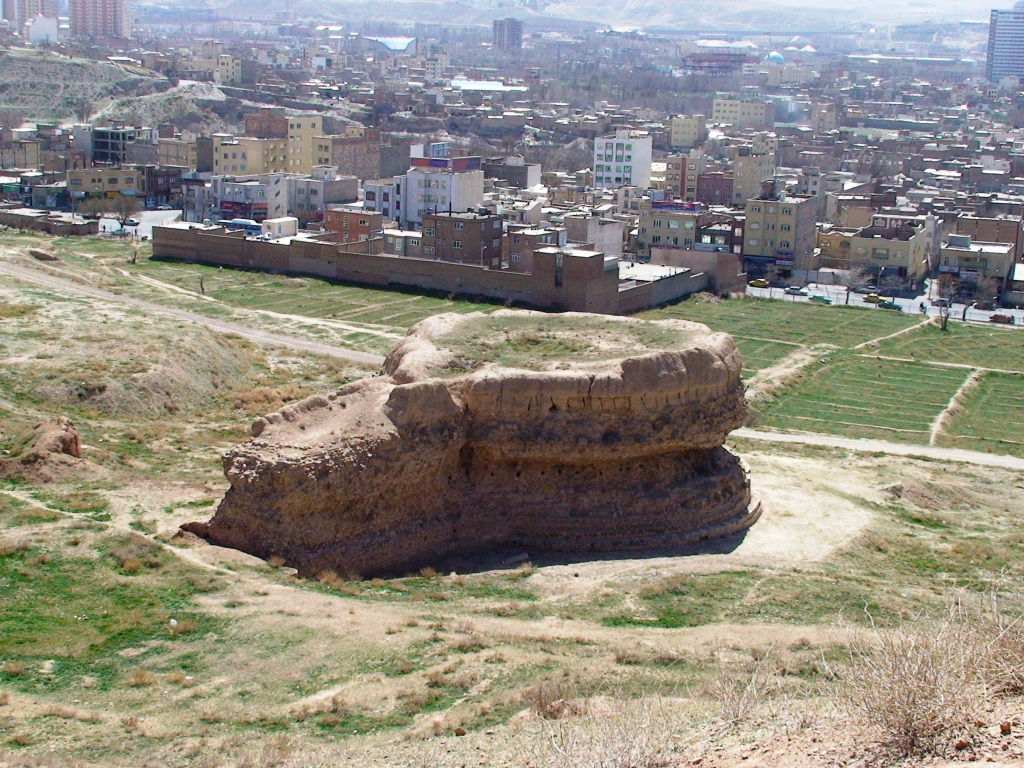 Ruins of Rabe Rashidi